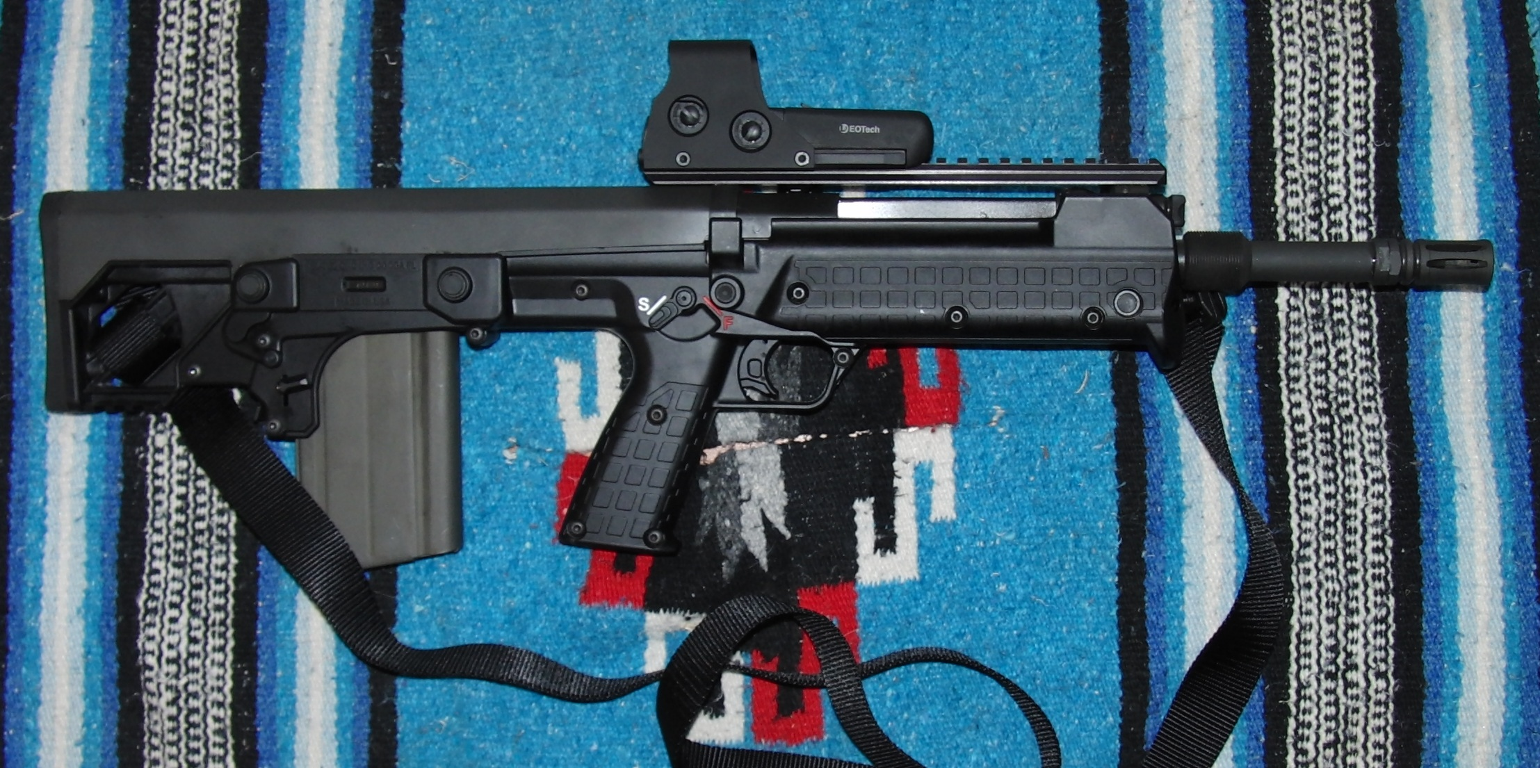 Right side picture of Kel-Tec RFB in .308 with EOTech 512 HWS mounted and factory two point sling attached.